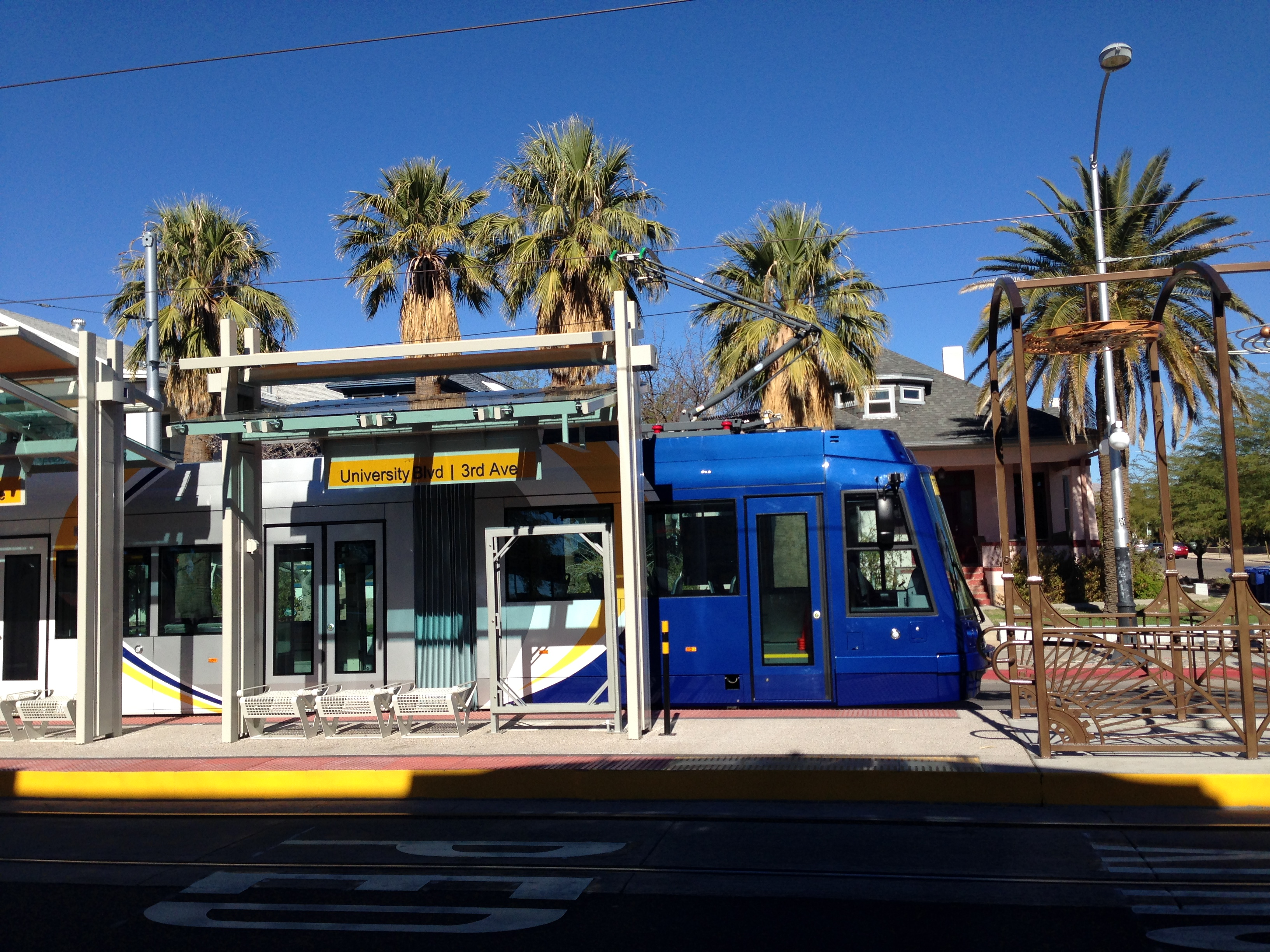 A Tucson Sun Link streetcar stops at the 3rd and University station during vehicle testing, December 2013.